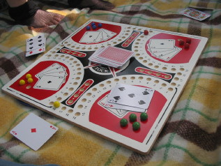 Photo taken by me in August 2004, representing a Tock board during gameplay. Published at . Uploaded to Wikipedia for use in the Tock article.